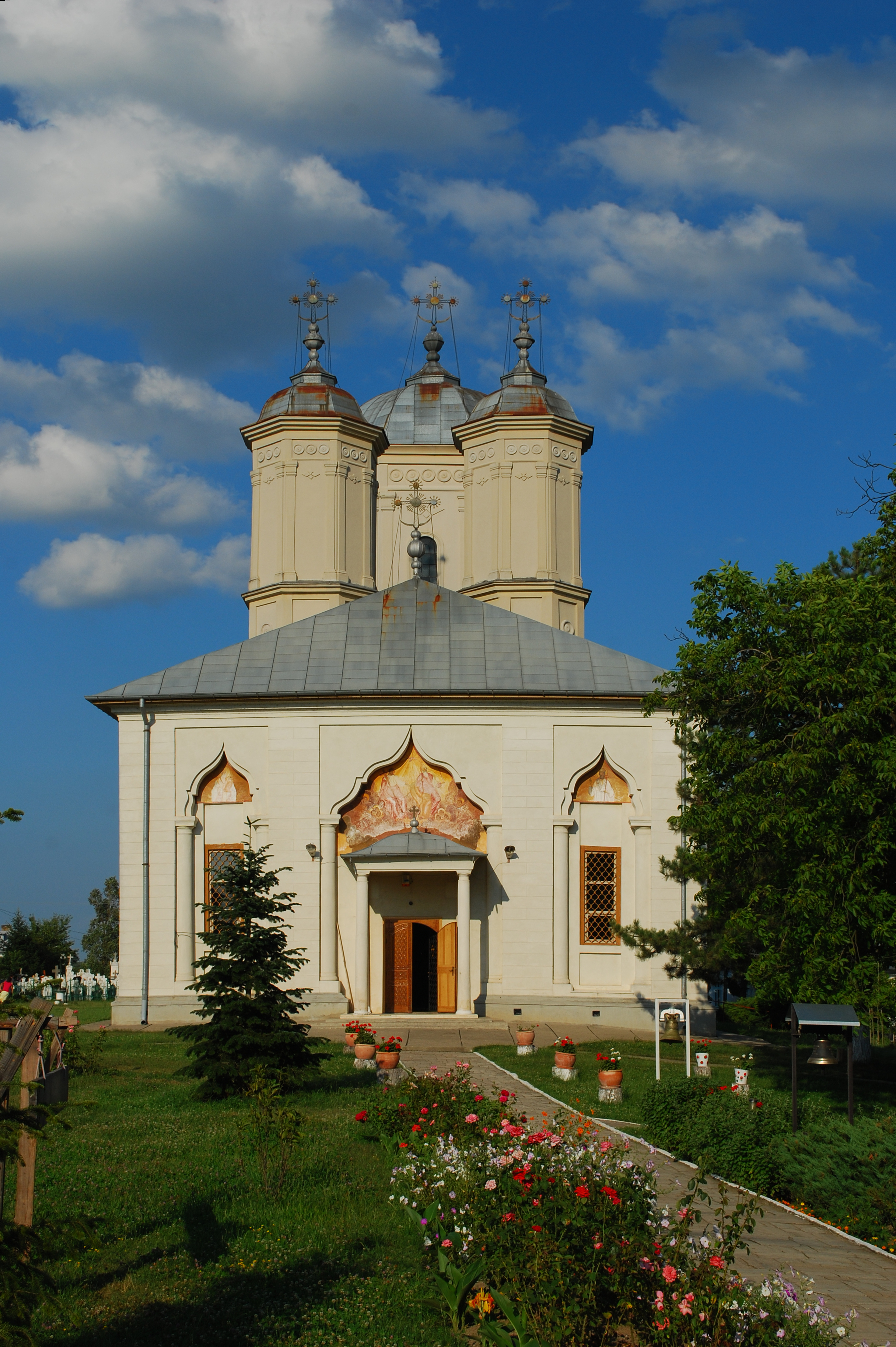 The Holy Trinity church at the Pasărea monastery, Brăneşti commune, Ilfov County, RomaniaRomână: Biserica Sfânta Treime de la mănăstirea Pasărea, comuna Brăneşti, judeţul Ilfov, România 01